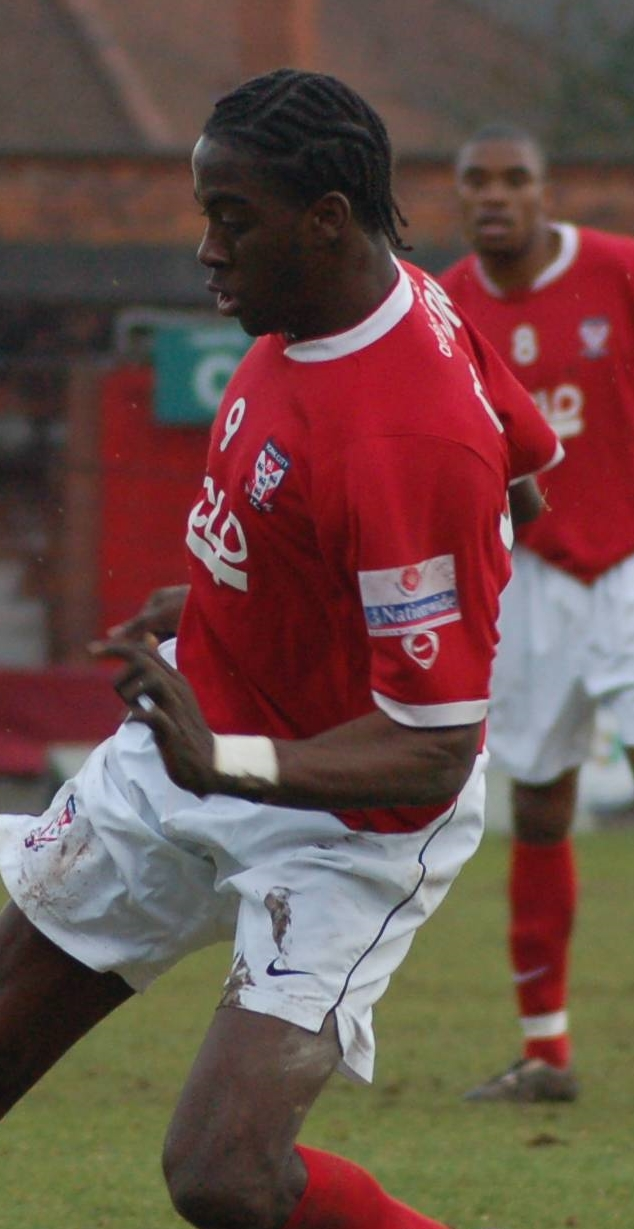 Clayton Donaldson playing for York City against Weymouth at Bootham Crescent, York on 17 February 2007